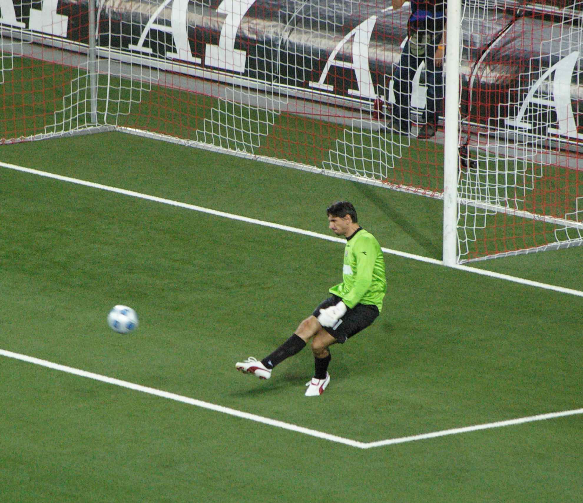 Tomislav Butina goalkeeper of Dinamo Zagreb during the Quampions League qualifier 3rd round vs.Red Bull Salzburg